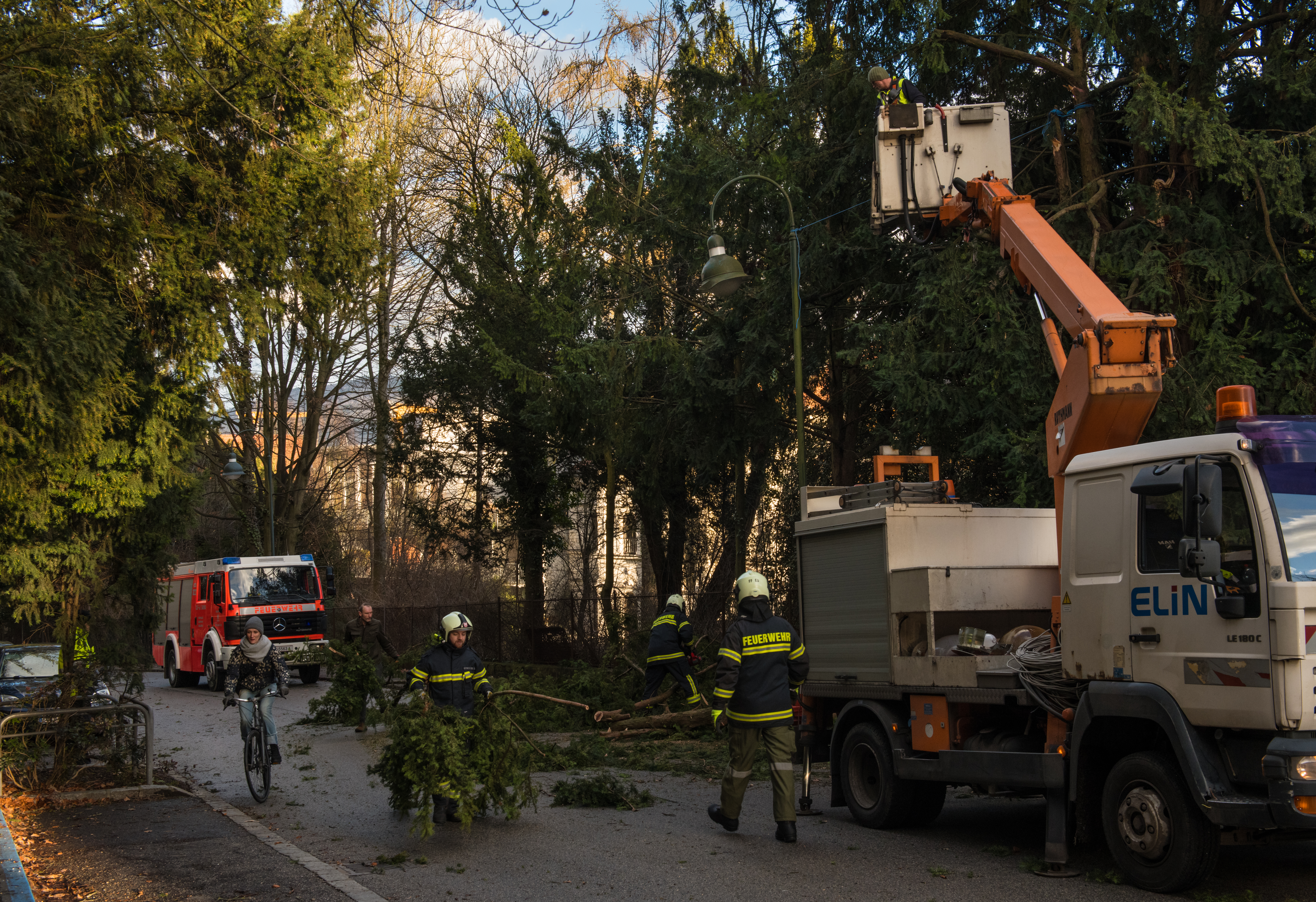 A tree fell due to strong winds.